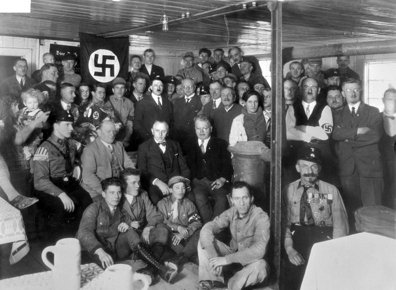 Munich - Adolf Hitler and NSDAP treasurer Franz Xaver Schwarz. Hitler and Schwarz at the dedication of the renovation of the Palais Barlow on Brienner Straße to the Brown House.